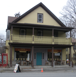 Wild Hive Cafe